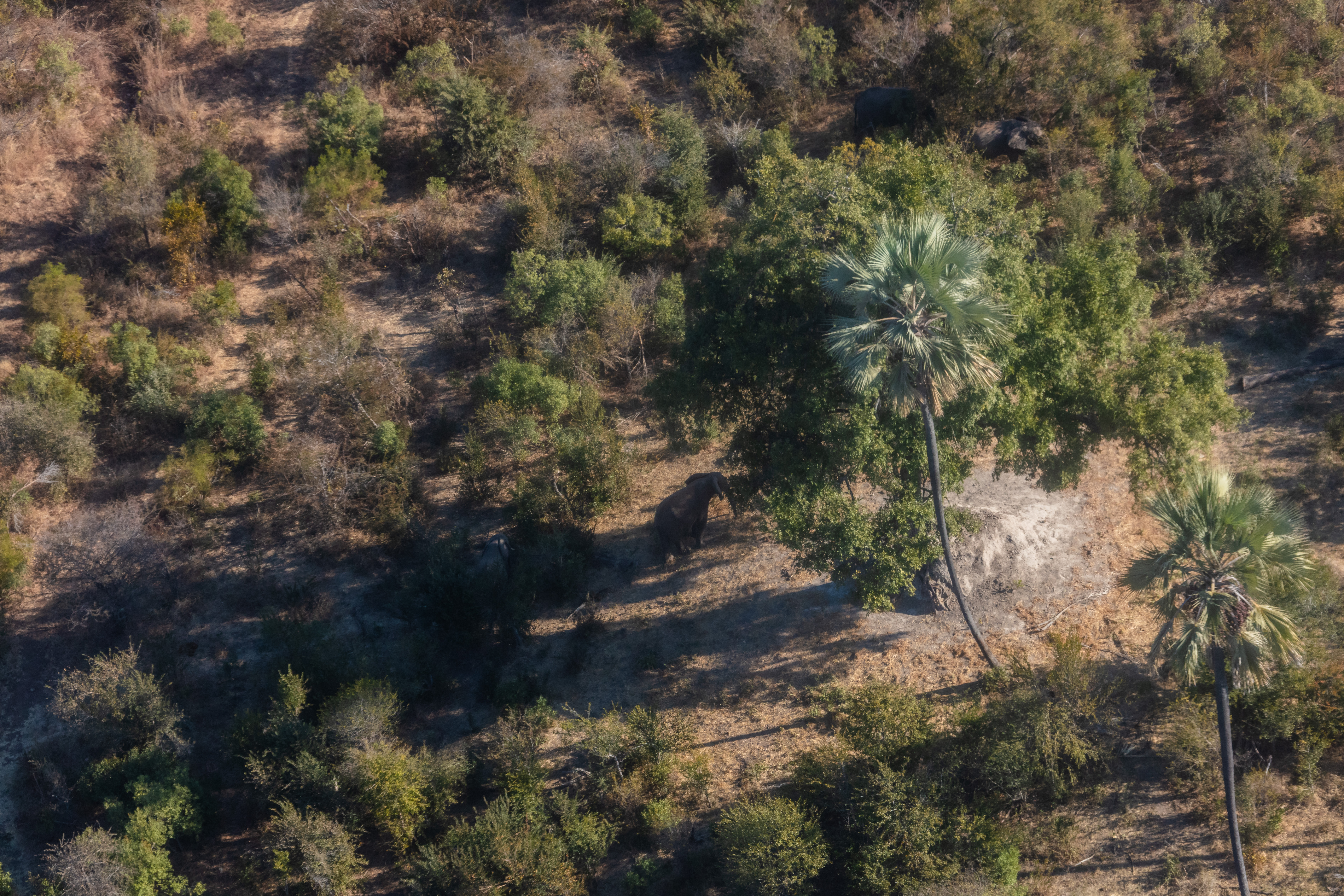 Mosi-oa-Tunya National Park, Zambia